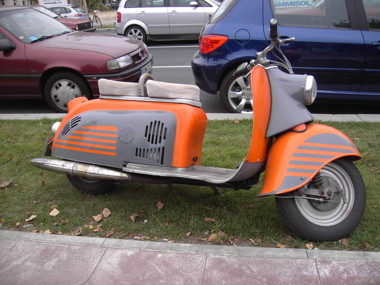 IWL scooter